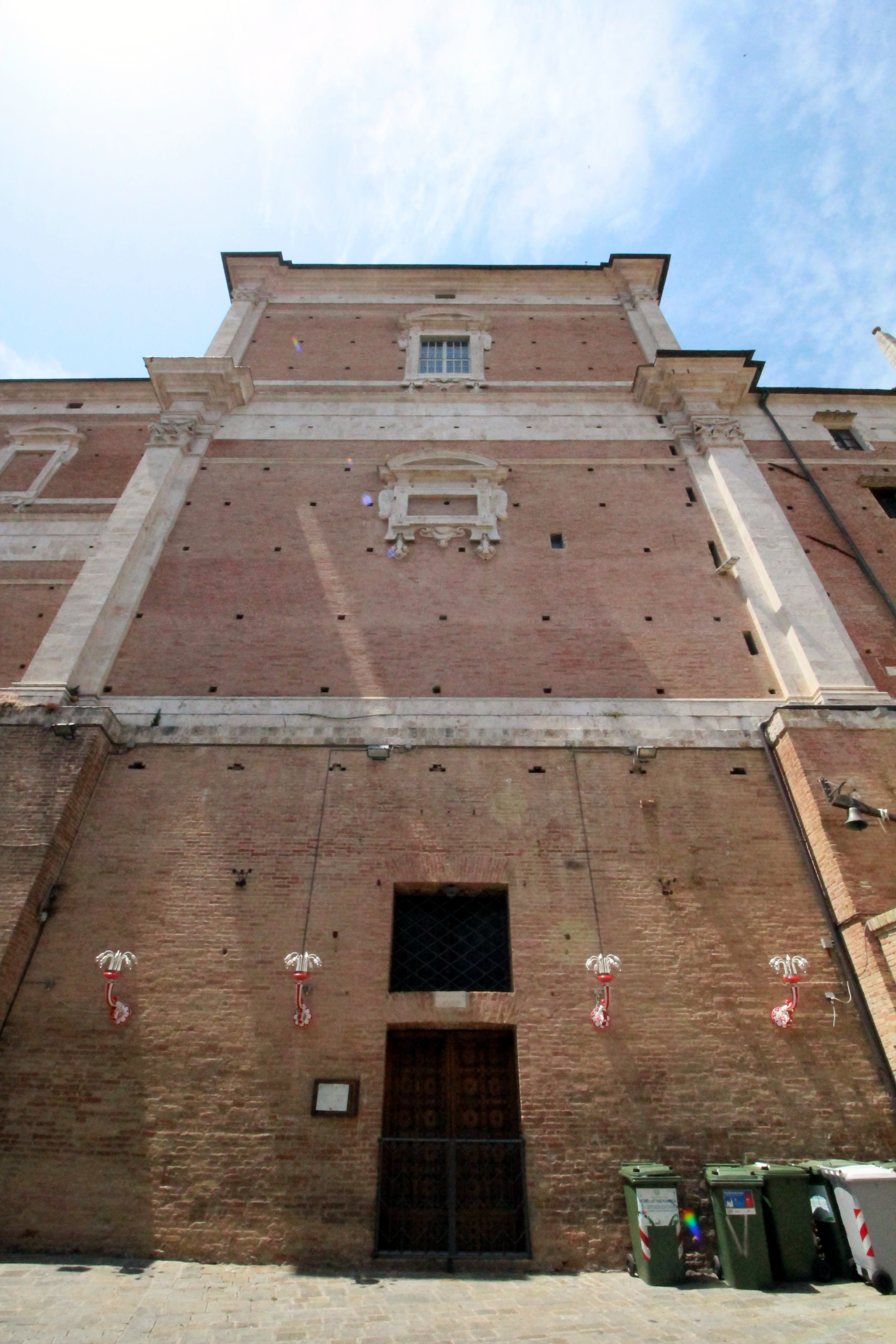 Oratory Oratorio del Suffragio, Contrada Church of the Giraffe, located under the Church Santa Maria di Provenzano (entrance on the right side (east)), Siena, the Tuscany region, Italy.